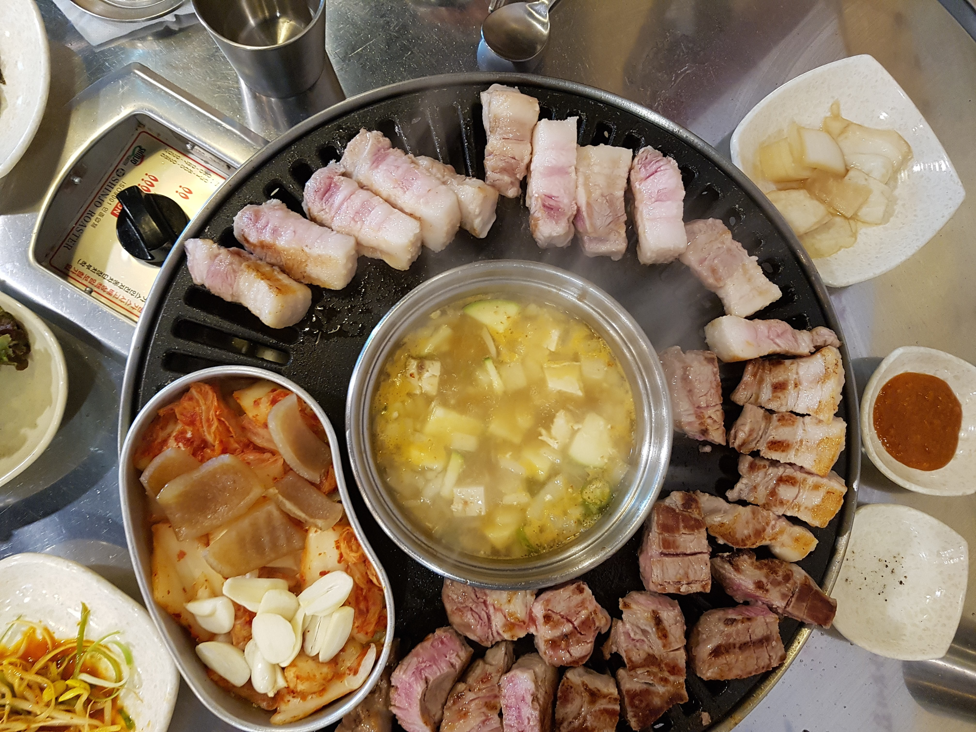 Moksal (pork shoulder)